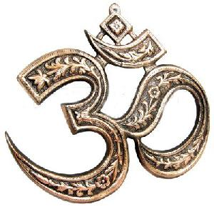 Om symbol